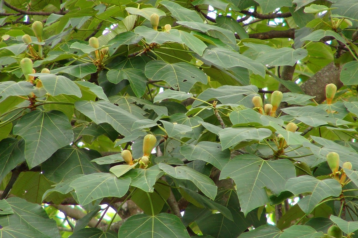 Ochroma pyramidale, balsa tree, leaves and flower buds. Costa Rica, prov. Guanacaste, Hacienda Guachipelin near Rincon de la Vieja.